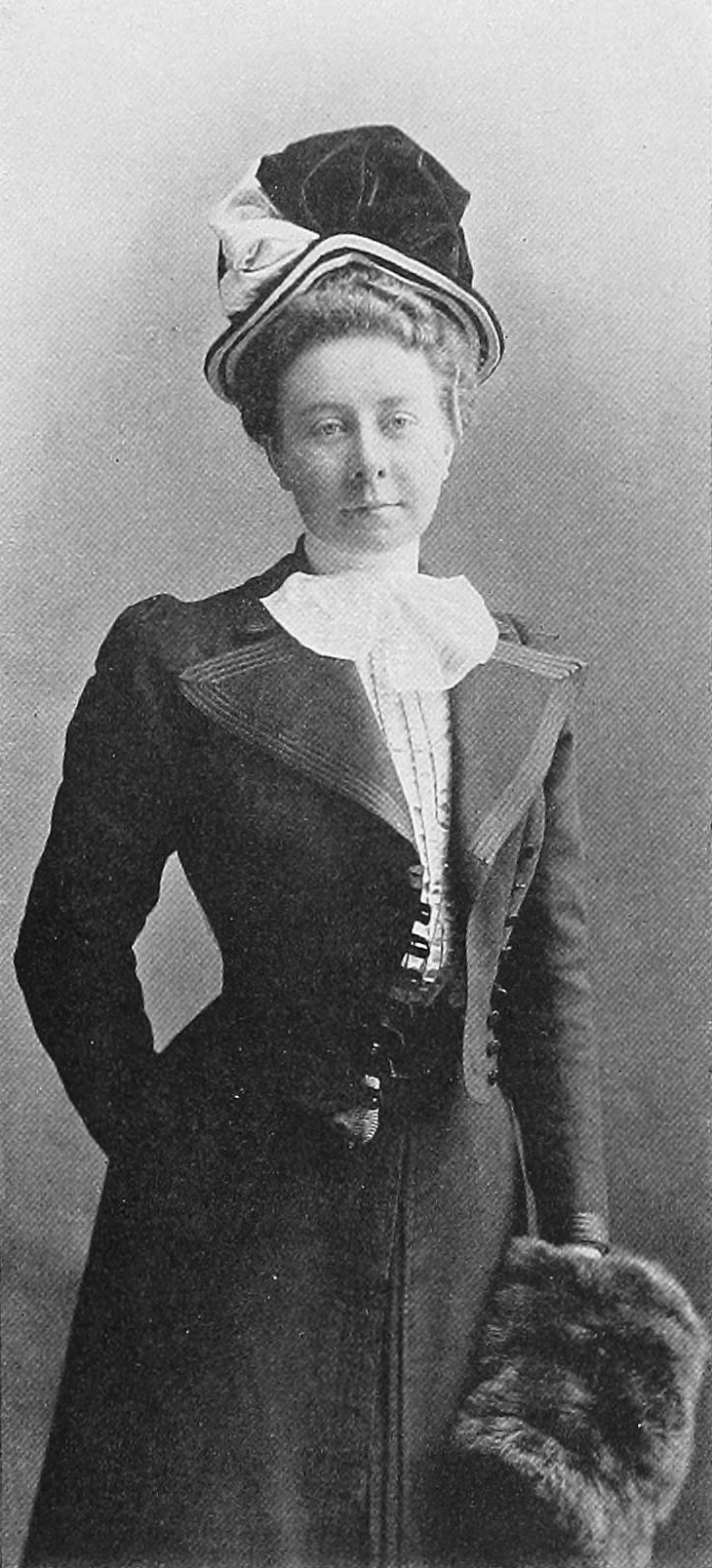 A white woman, standing, wearing a tailored suit with a white blouse and a large hat. She is holding a fur in one hand.